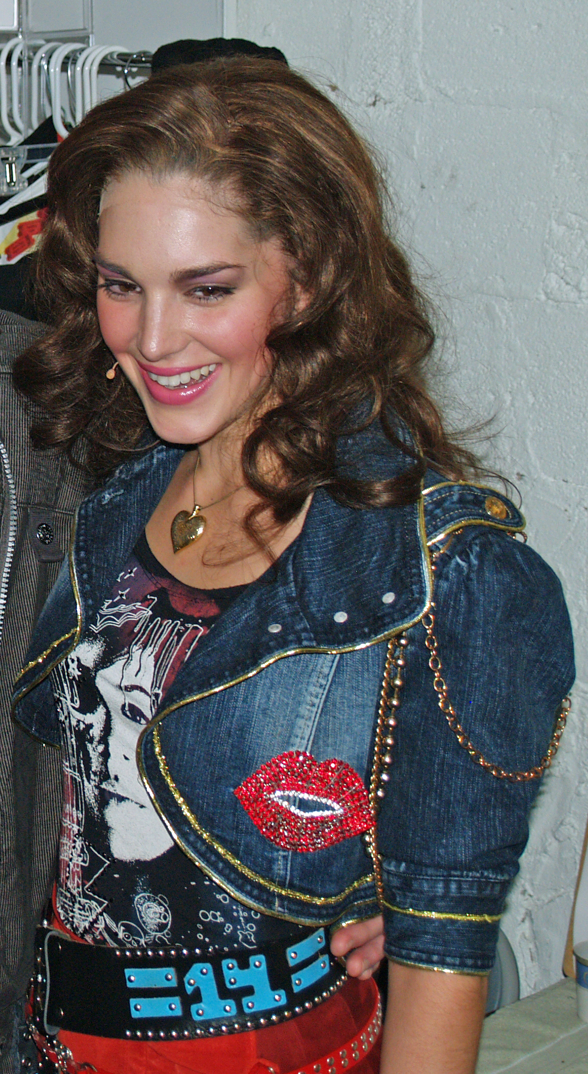 Constantine Maroulis, Kevin Cronin and Kelli Barrett backstage at the off-Broadway musical Rock of Ages.